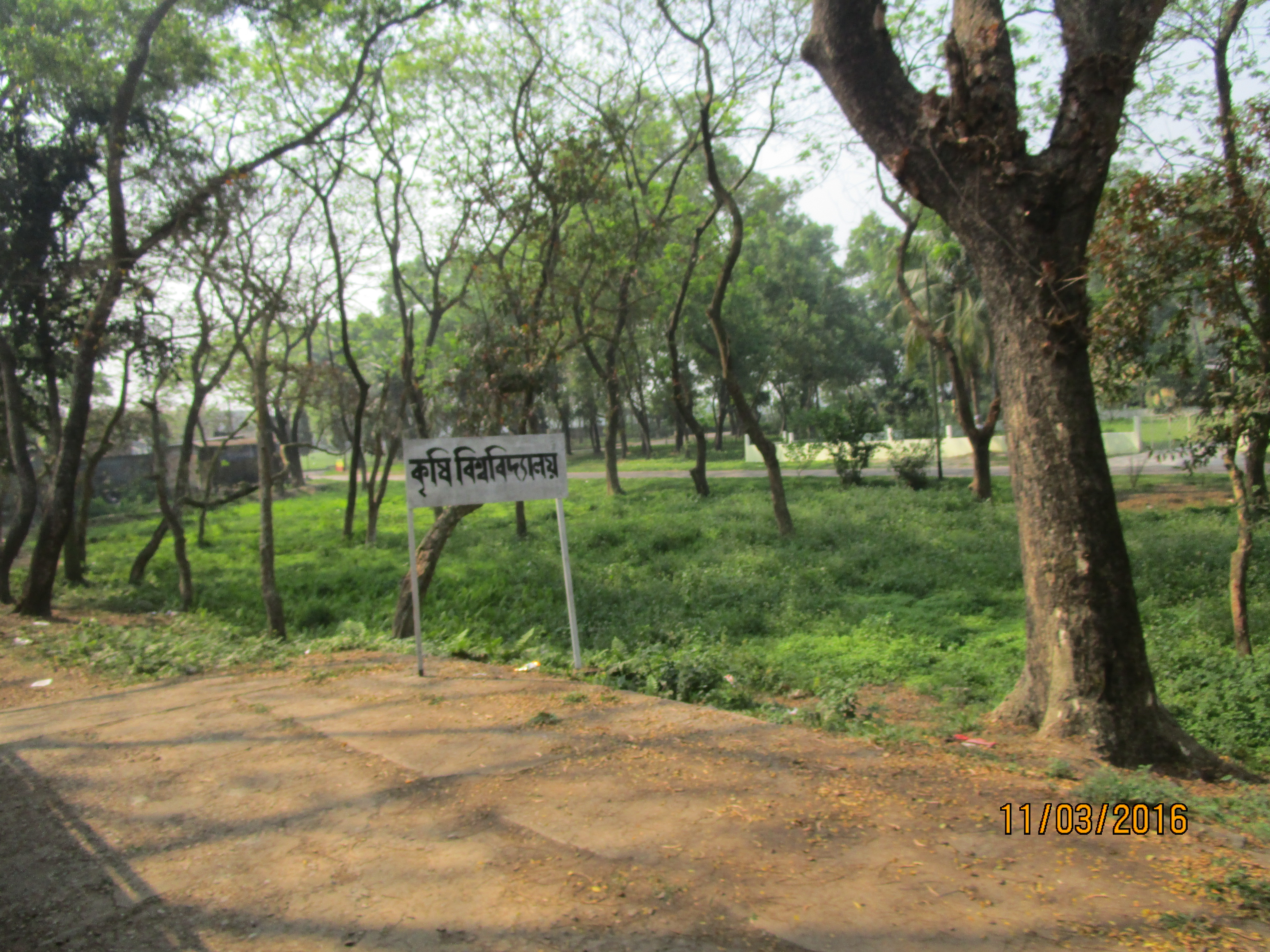 Krishi Biswabidyalaya railway station nameplate